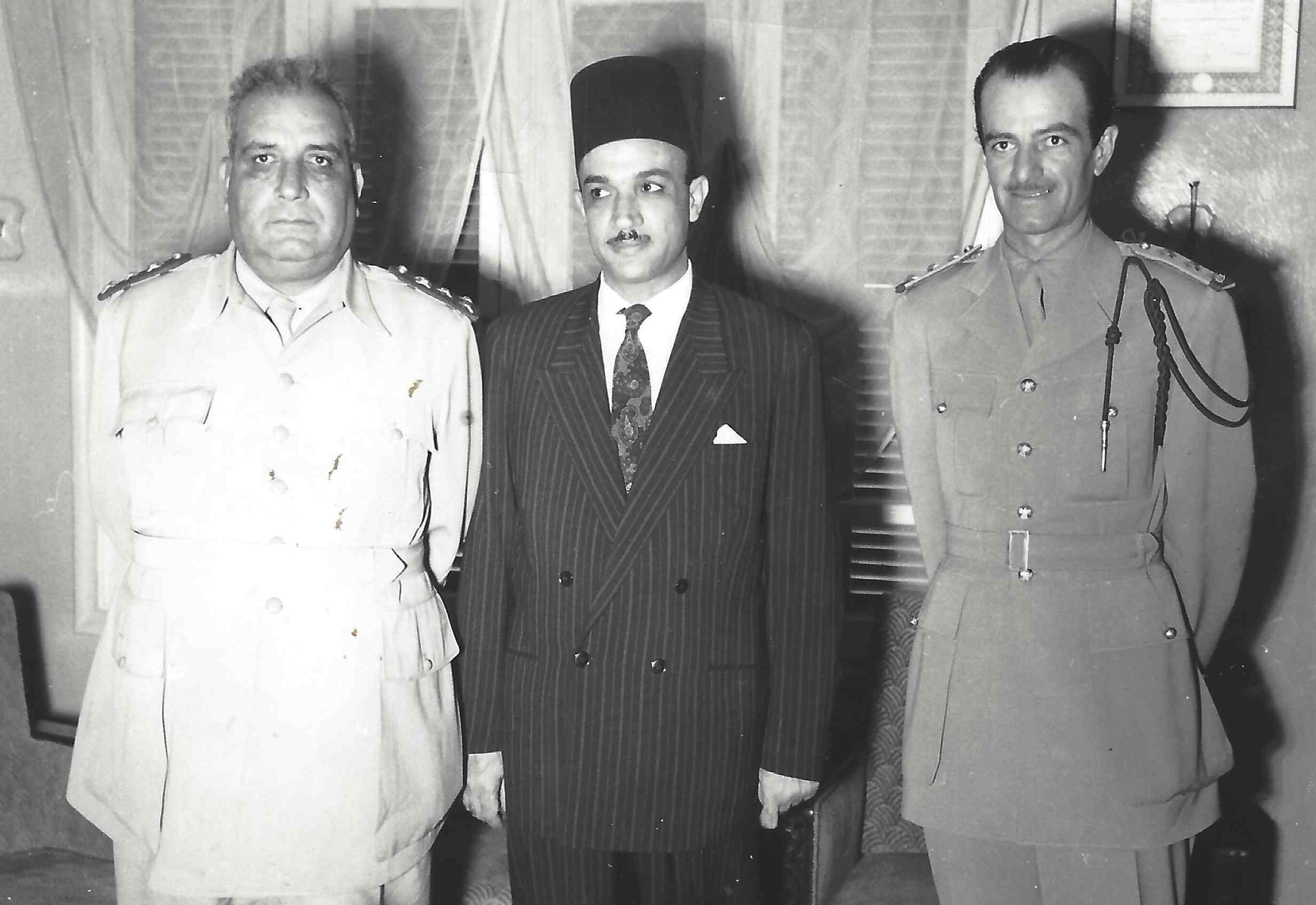 Mohammed Asad Talas in the middle and on his right Sami Al-Henawi and on his left Khaled Jada